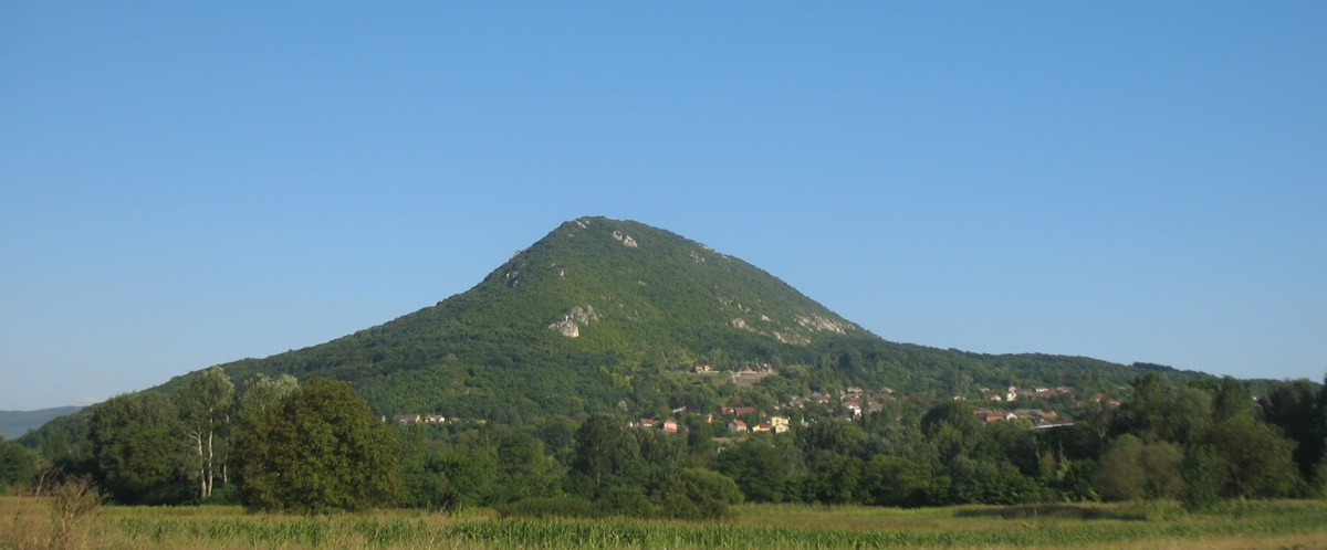 Baba mountain, east from Paraćin, Serbia.